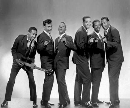 promotional photograph of The Contours